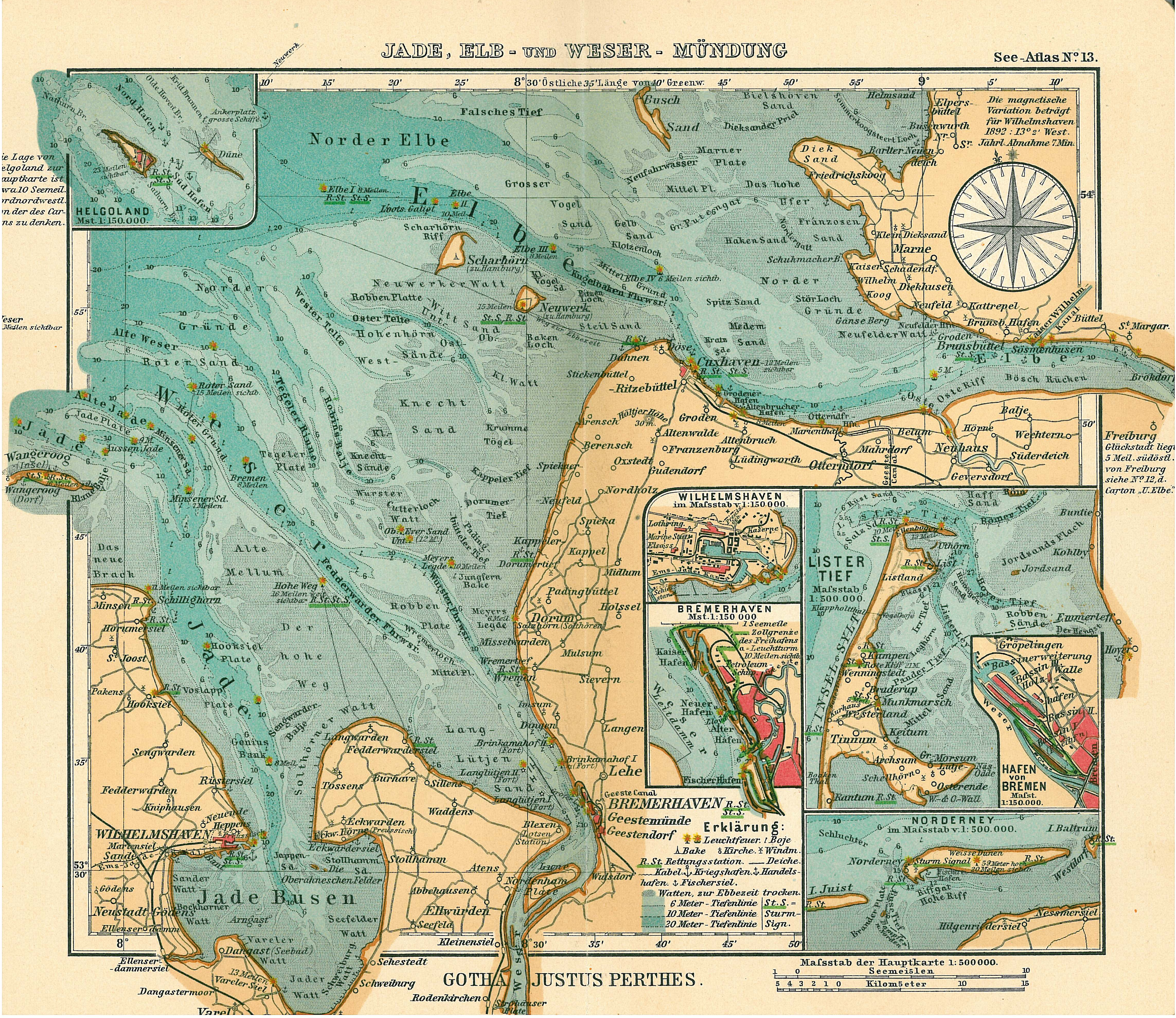 Page 13, Inset maps of Wilhelmshaven, Bremerhaven, Helgoland, Sylt